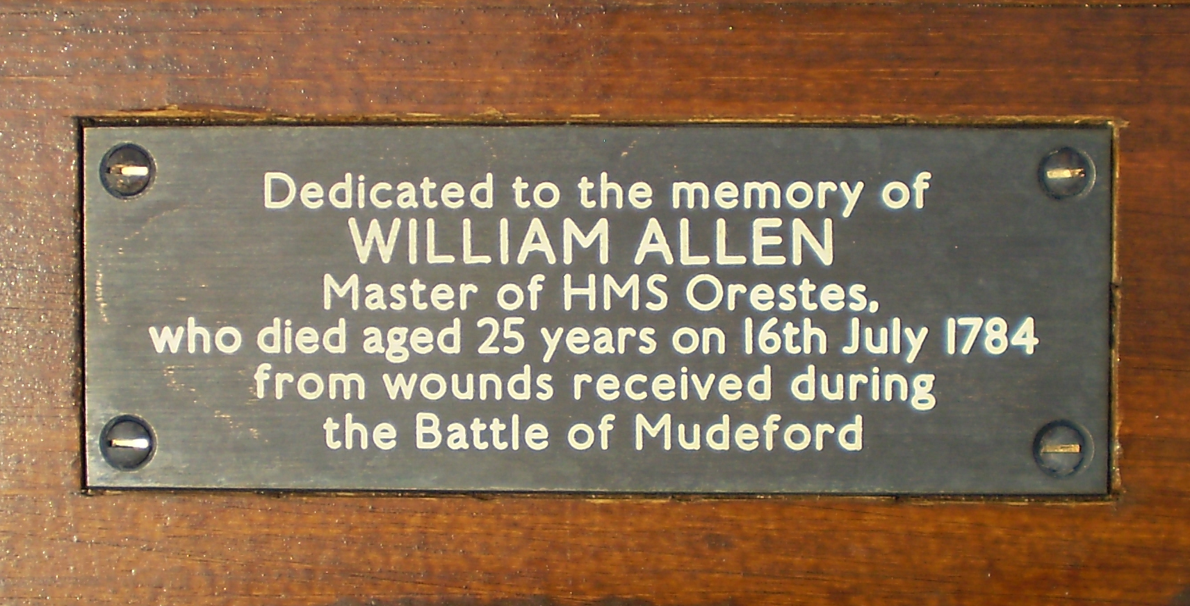 A close-up of the dedication plate attached to the William Allen Memorial Bench on Mudeford Quay at the entrance to Christchurch Harbour, Dorset, UK.